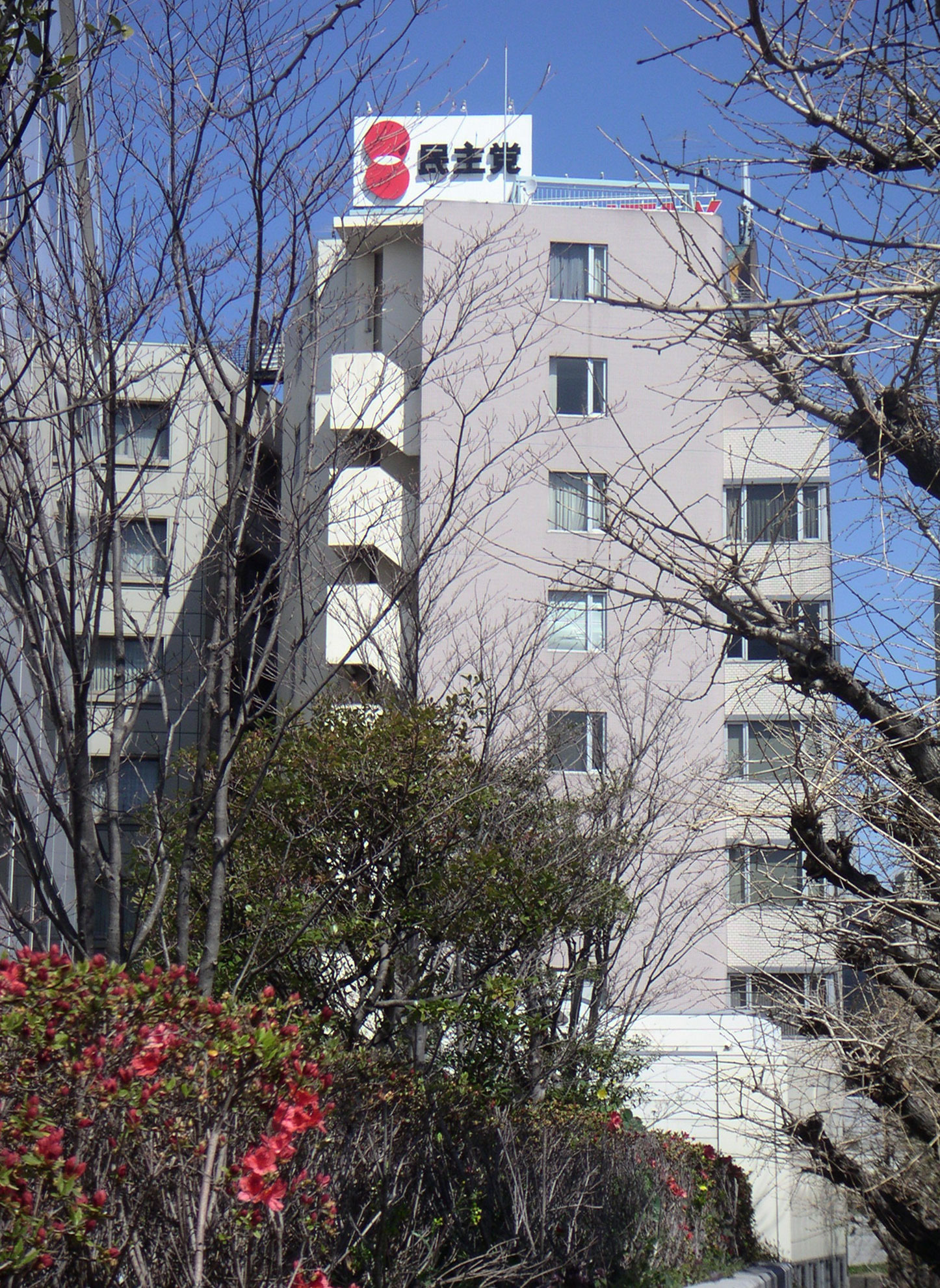 Democratic Party of Japan headquarters ja: 民主党本部